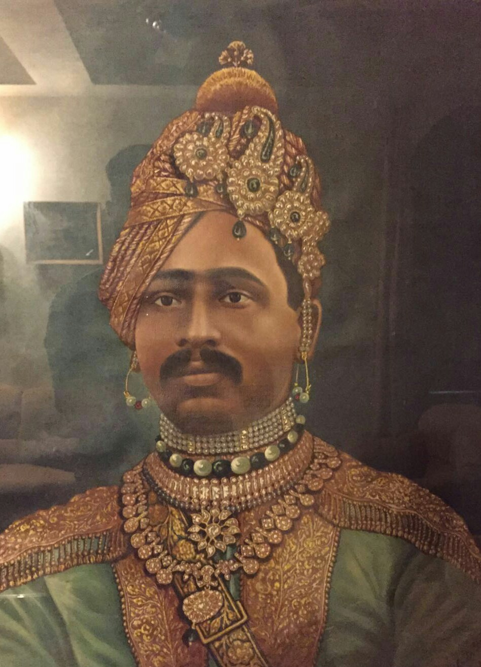 Photo of king of Bakhatgarh